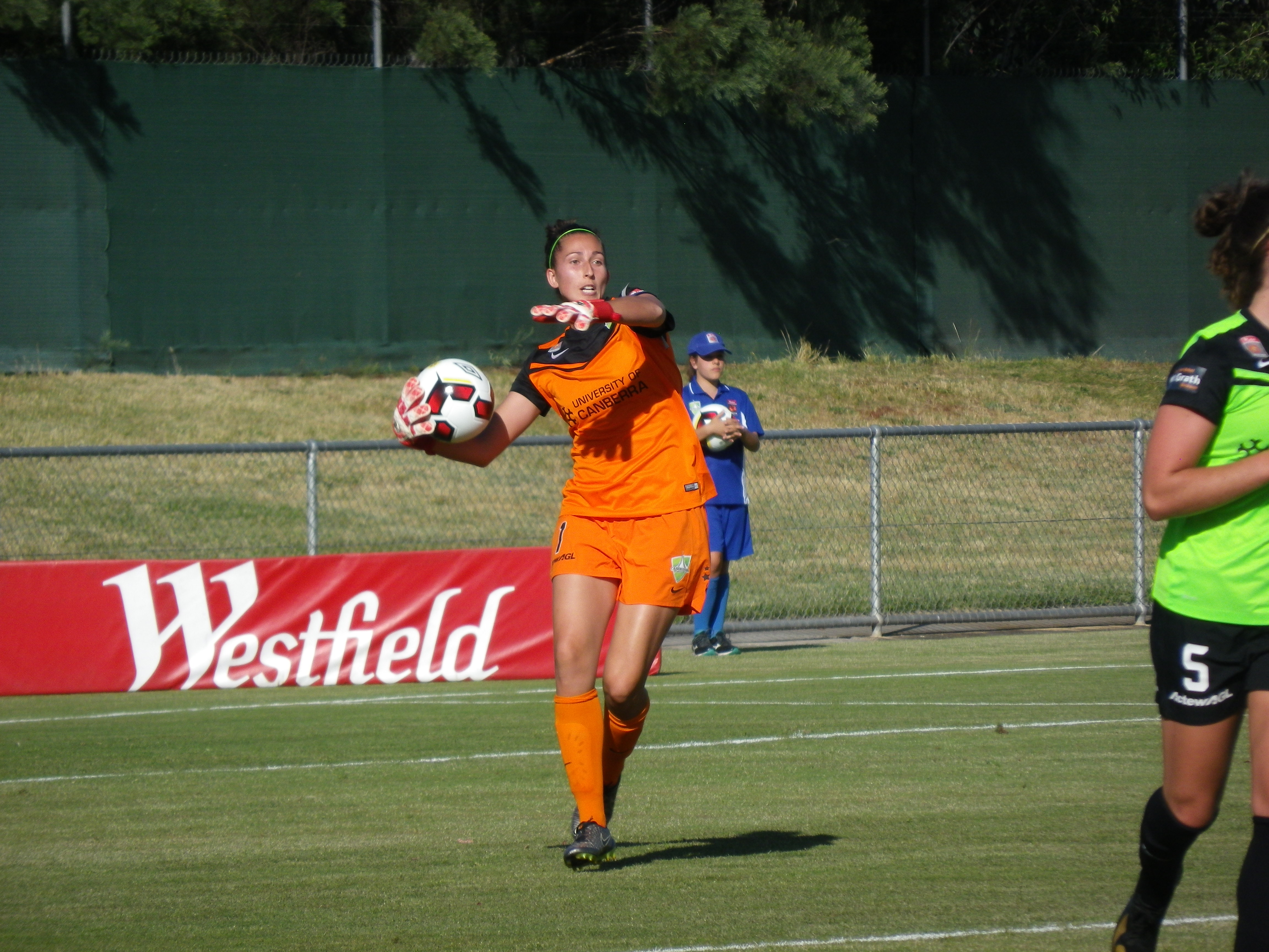 Trudy Burke playing for Canberra United in the Australian Westfield W-League, Season 9 Round 04 - VS Newcastle Jets - 26.11.2016. Photo taken by Nathan Burke.